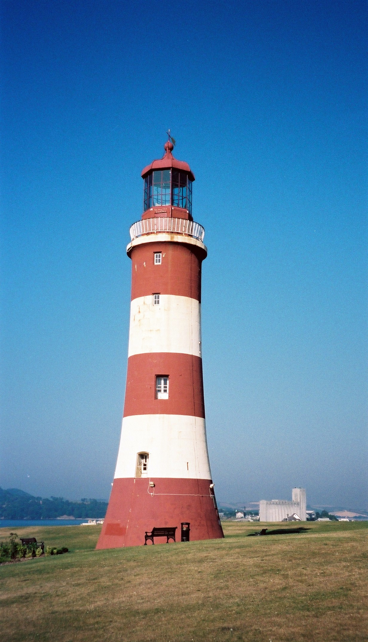 It's now painted white, from what I remember. See where this picture was taken. [?]